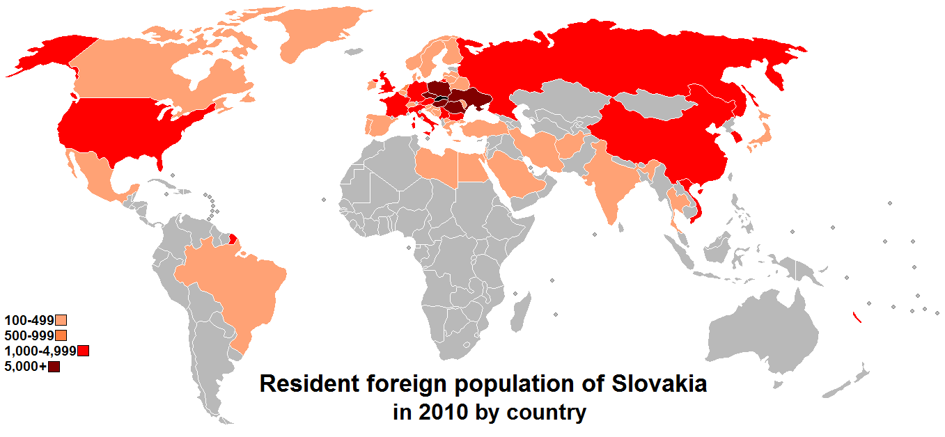 Foreign population of Slovakia in 2010 by country.